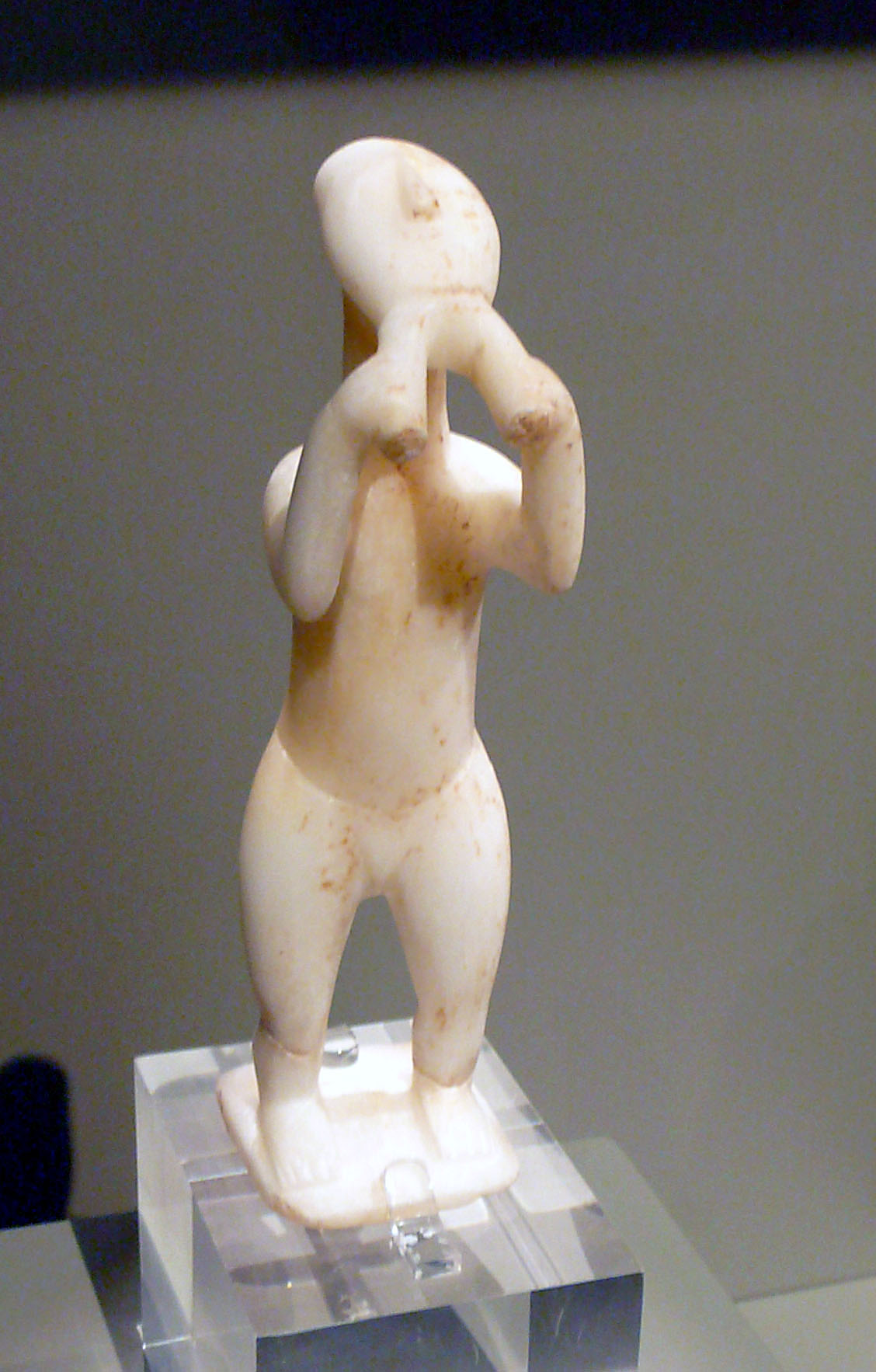 Marble statuette of a man playing the double flute, find from Keros. Early Cycladic II period, Culture of Keros-Syros , 2800-2300 BC. National Archaeological Museum, Athens. This figurine, together with other Early Cycladic figurines of musicians, demonstrate their three dimensional development, the very early achievement of Cycladic sculptures.